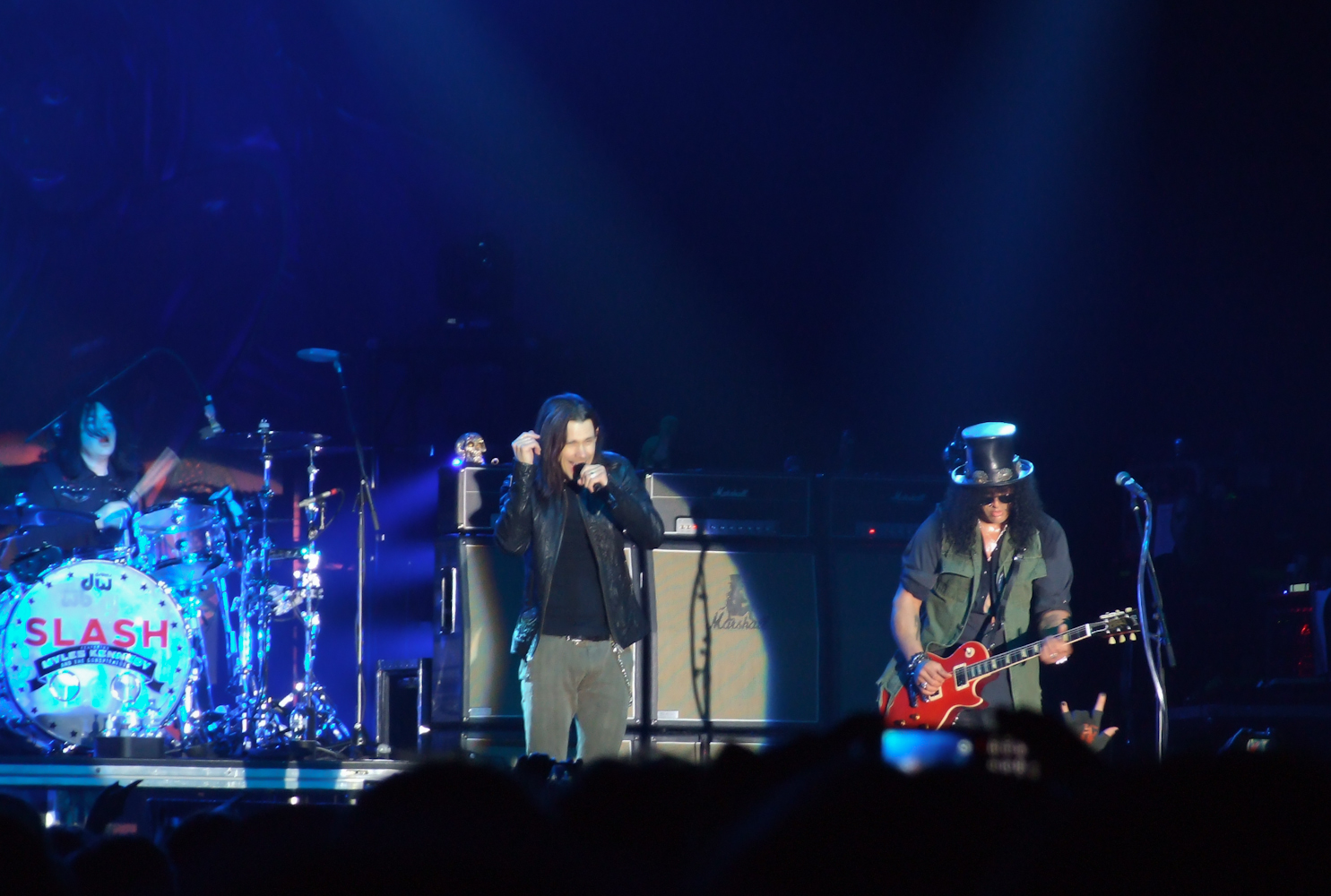 The American rock musicians Slash and Myles Kennedy performing live at Festivalna hall, Sofia, during their Apocalyptic Love World Tour 2013.